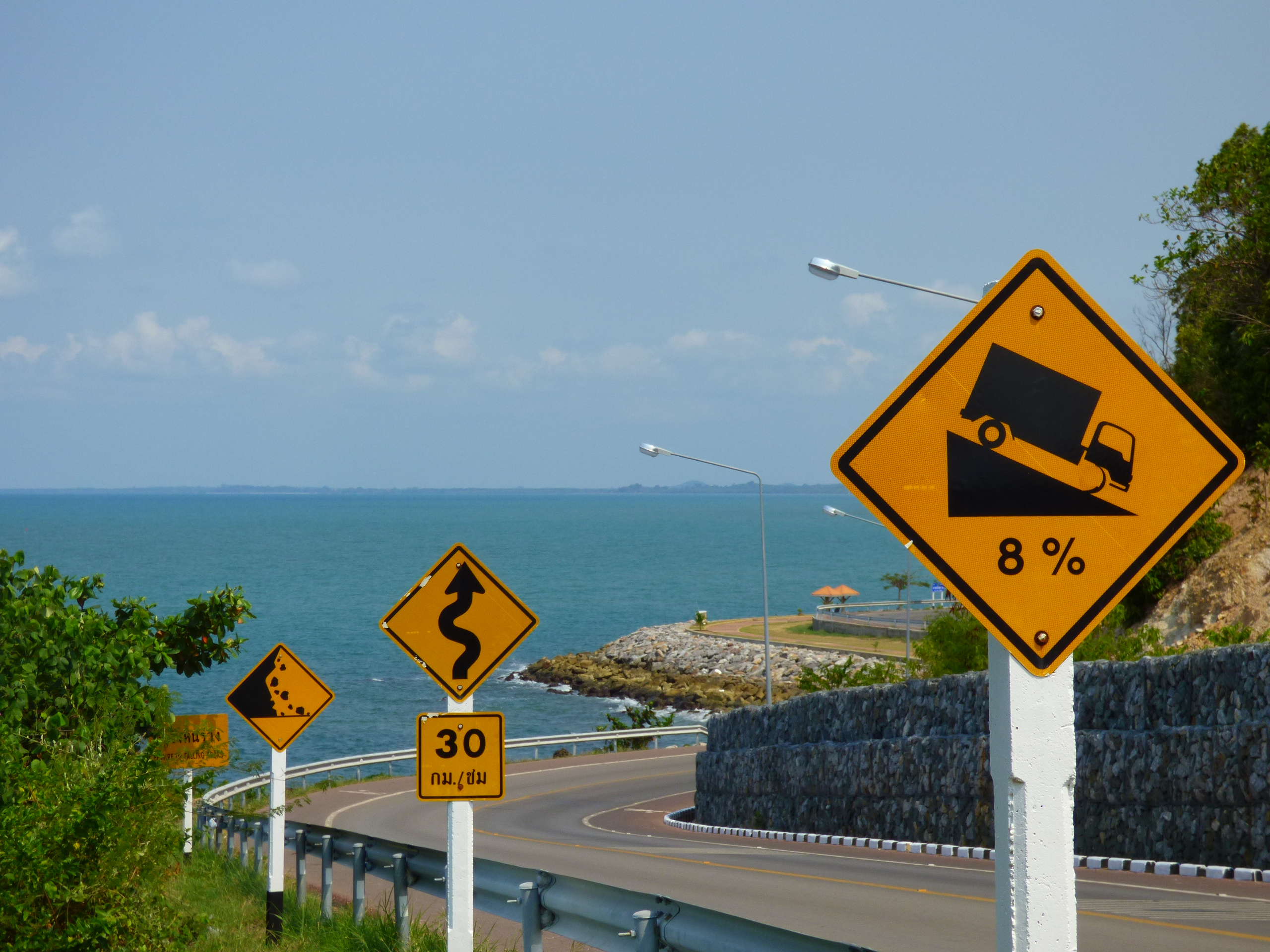 Noen Nang Phaya, a viewpoint in Na Yai Am District, Chanthaburi Province, Thailand.